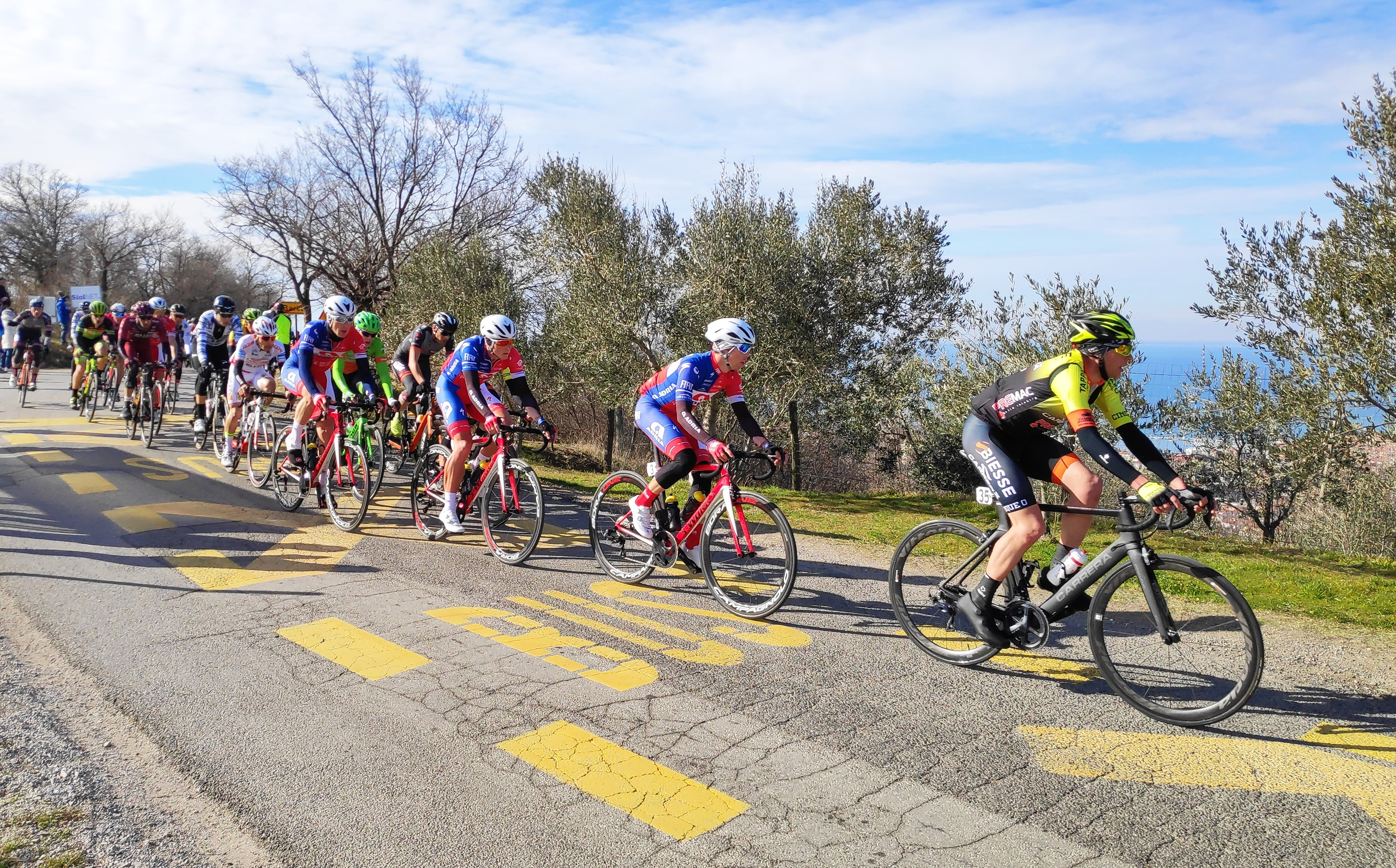 2019 GP Izola